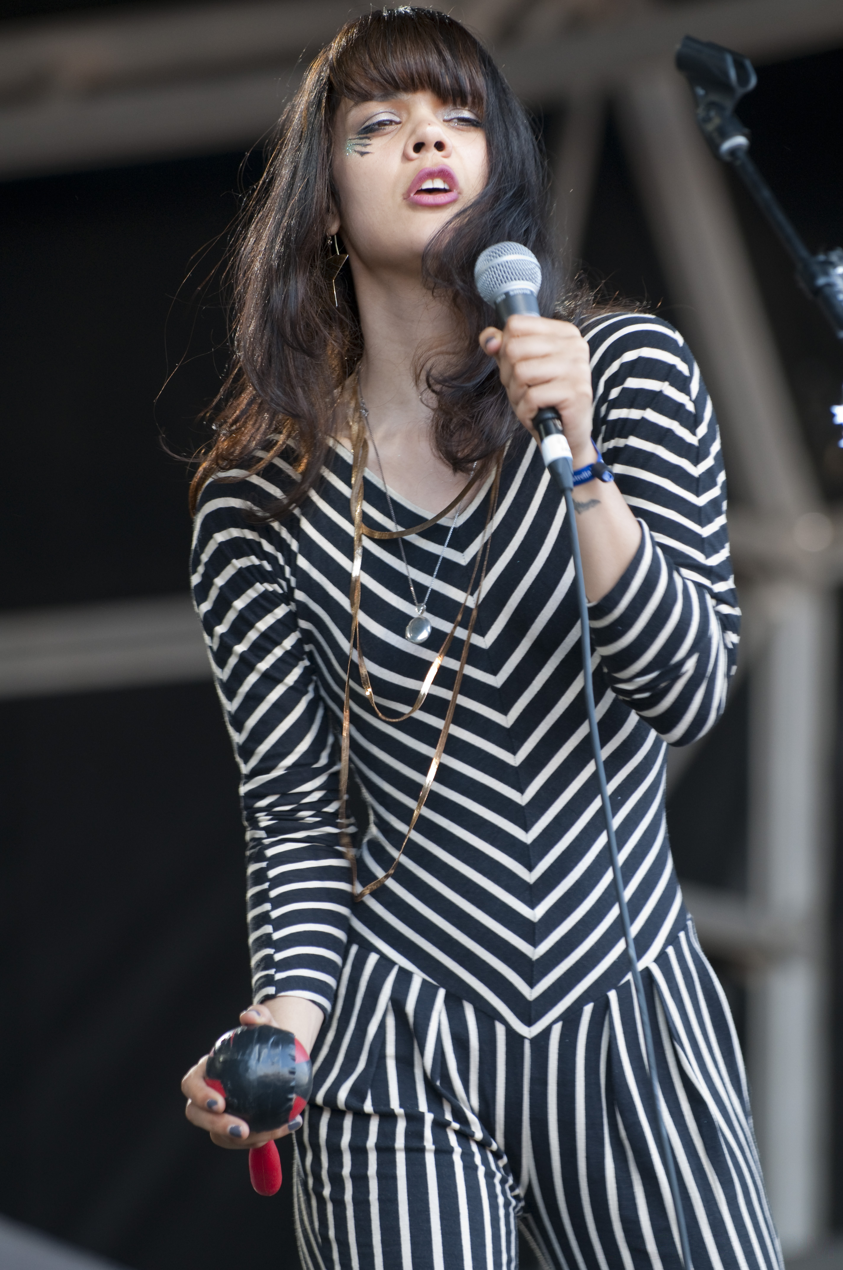 Bat for Lashes